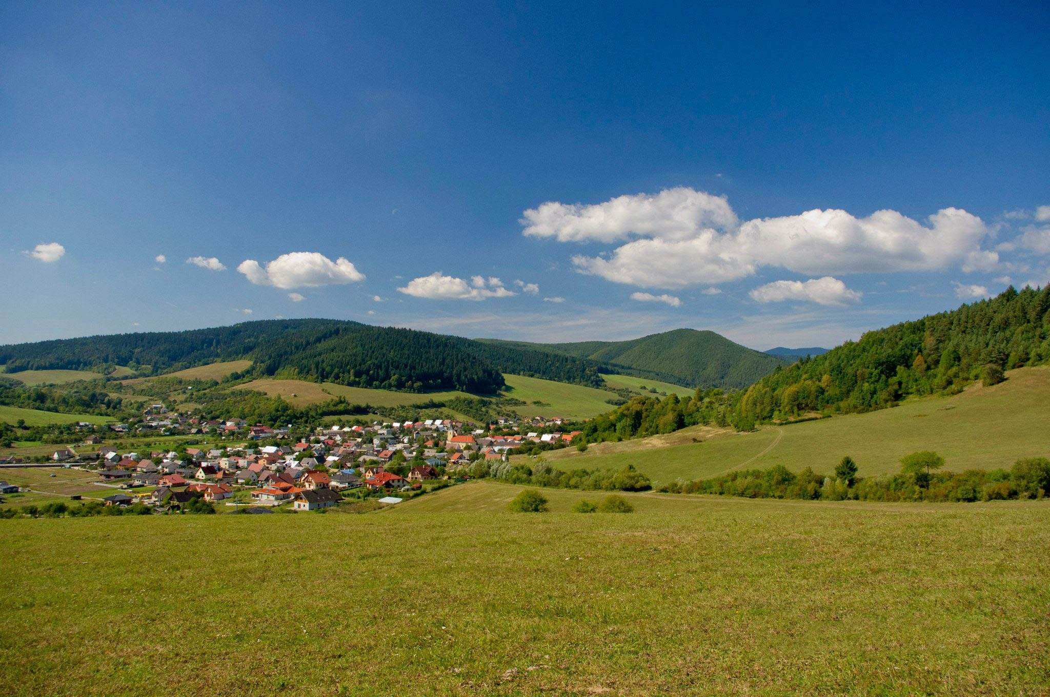 SE view of Jasenica